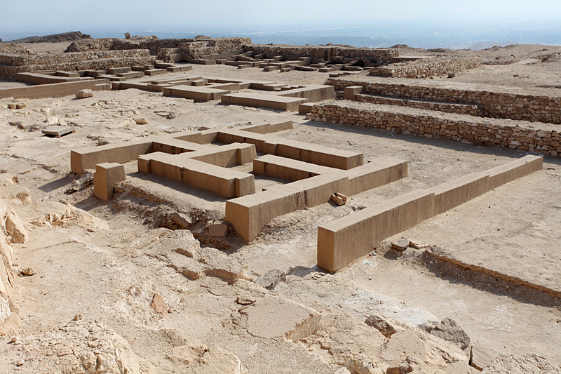 Reconstruction of the buildings M, D, L (south) of the east side of the Djedefre pyramid, view to north east, Abu Rawash, Egypt